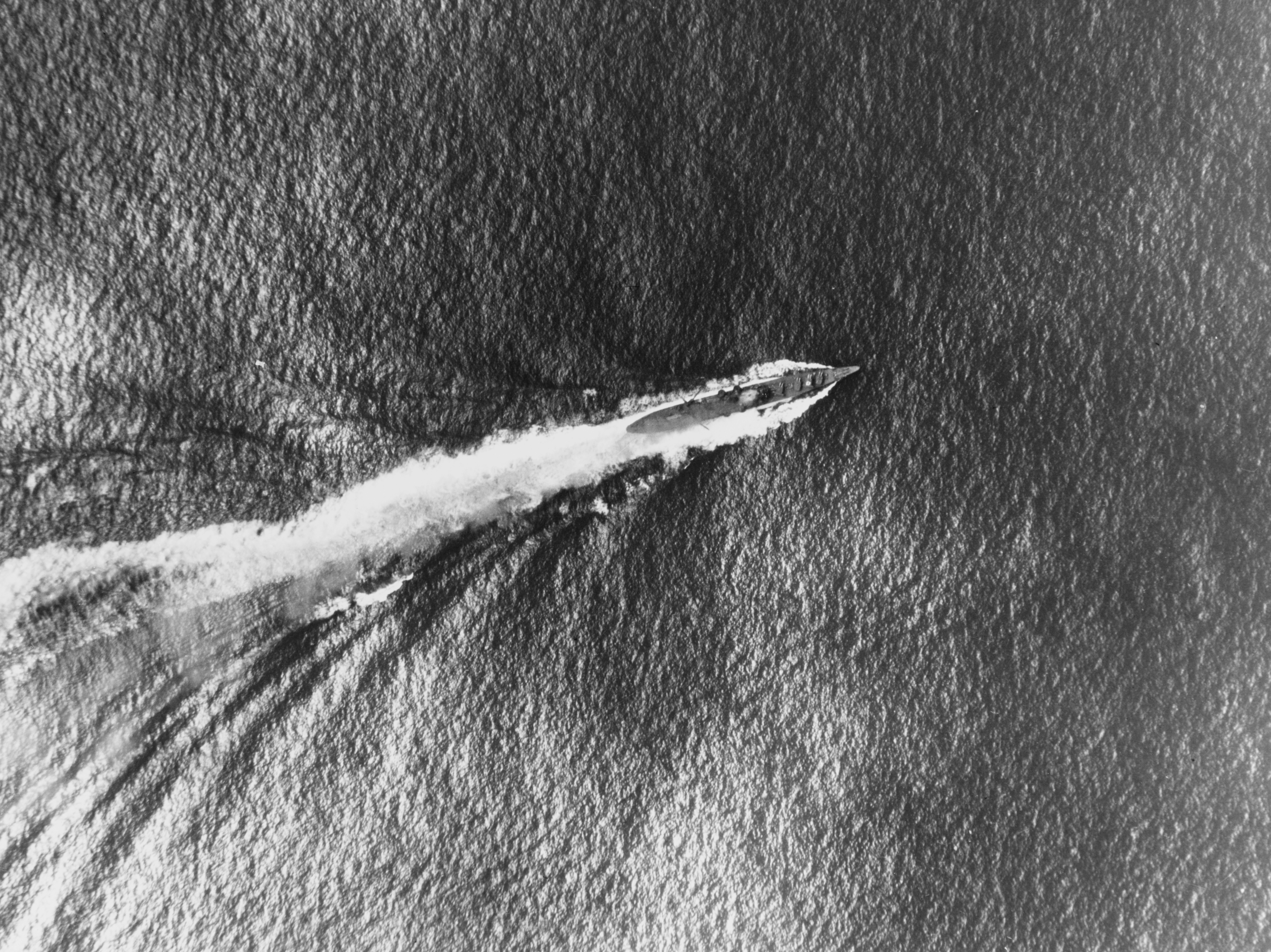 The Japanese heavy cruiser Chikuma under air attack during the Battle of the Santa Cruz Islands, 26 October 1942. Note the smoke coming from her bridge area, which had been hit by a bomb, and what appears to be a recognition marking painted atop her number two eight-inch gun turret. The ship's catapults and aircraft crane appear to be swung out over her sides, aft of amidships.